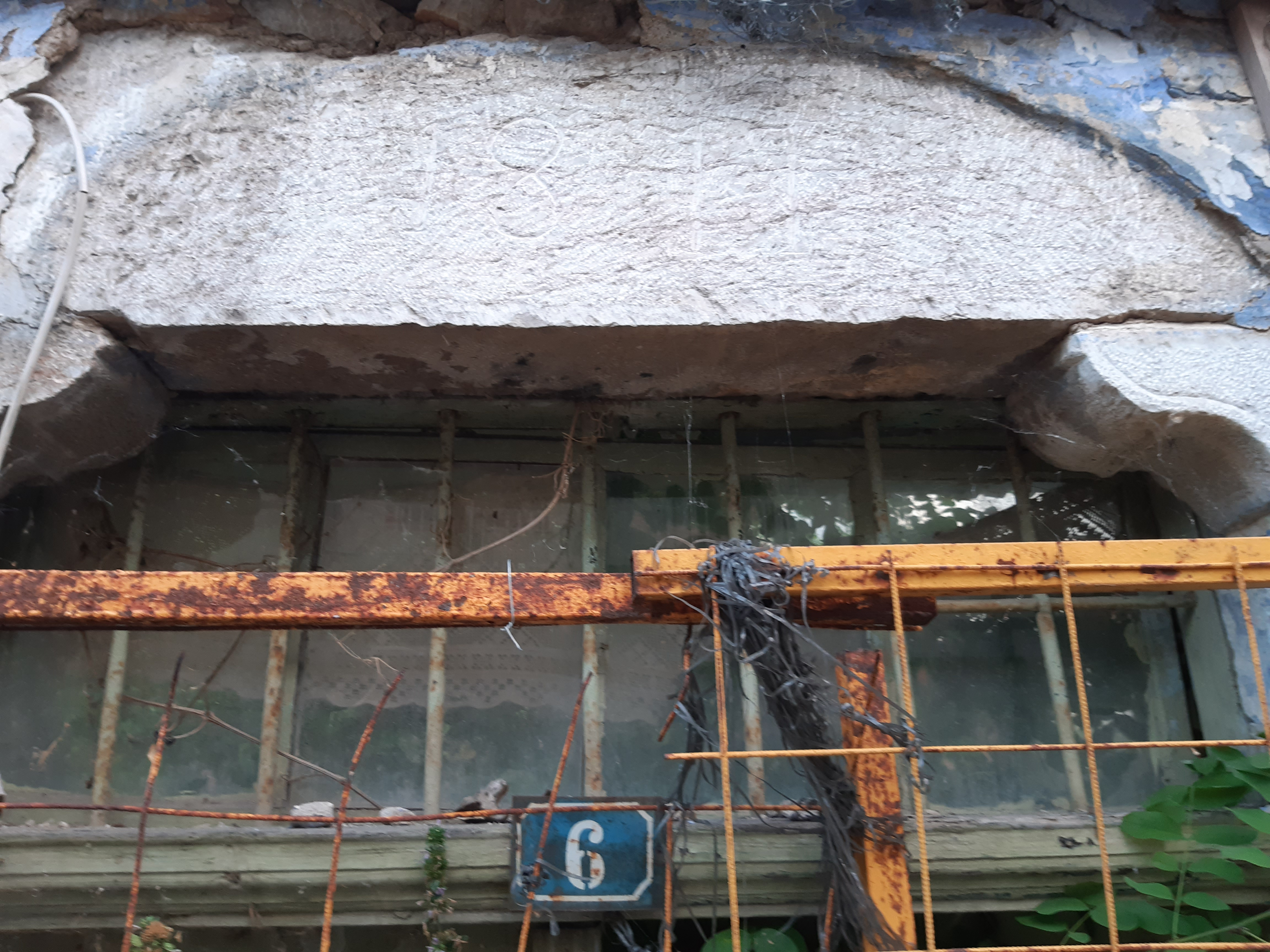 Papachristos Mansion